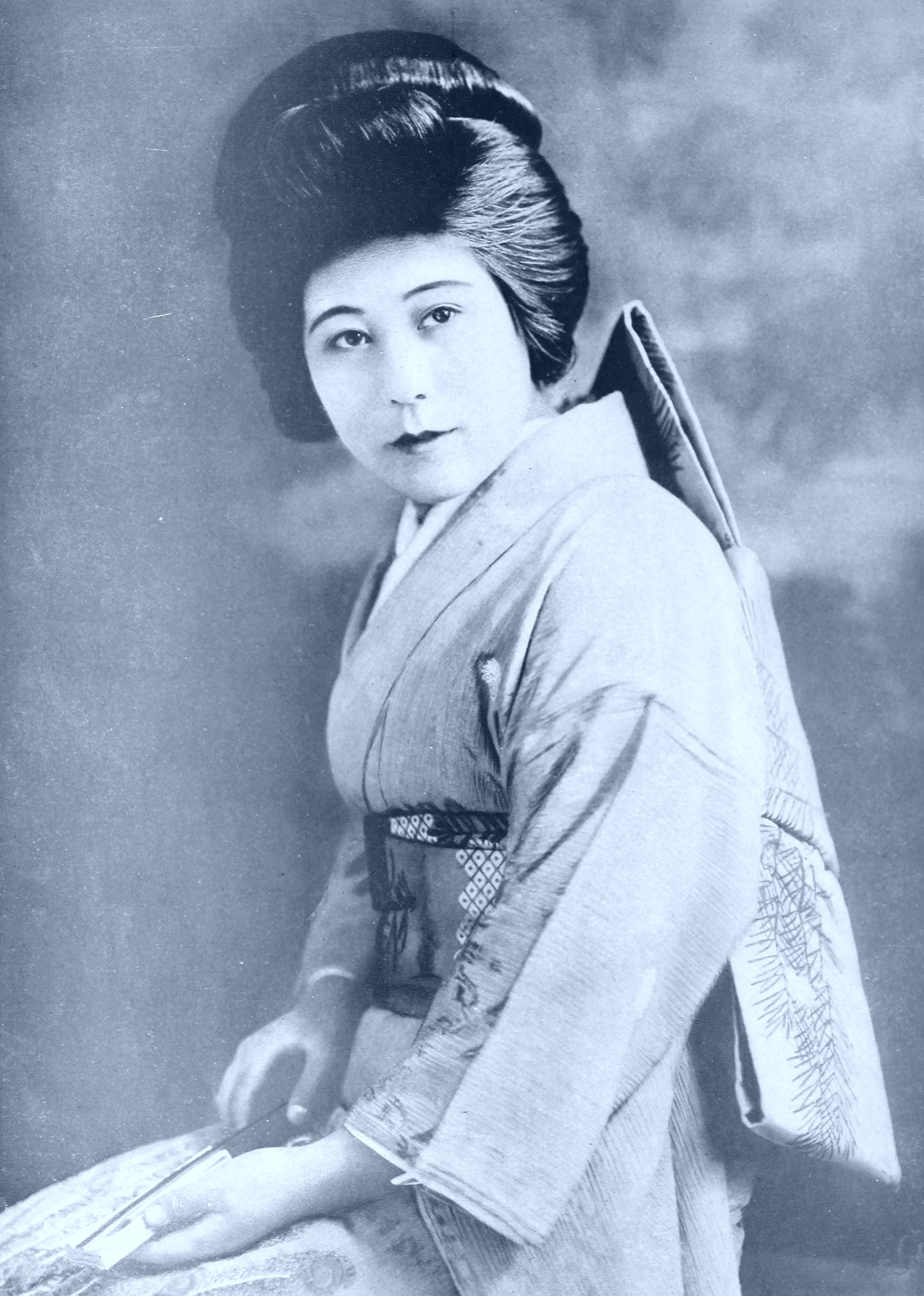 Tsuru Aoki in a fan-magazine portrait from 1920